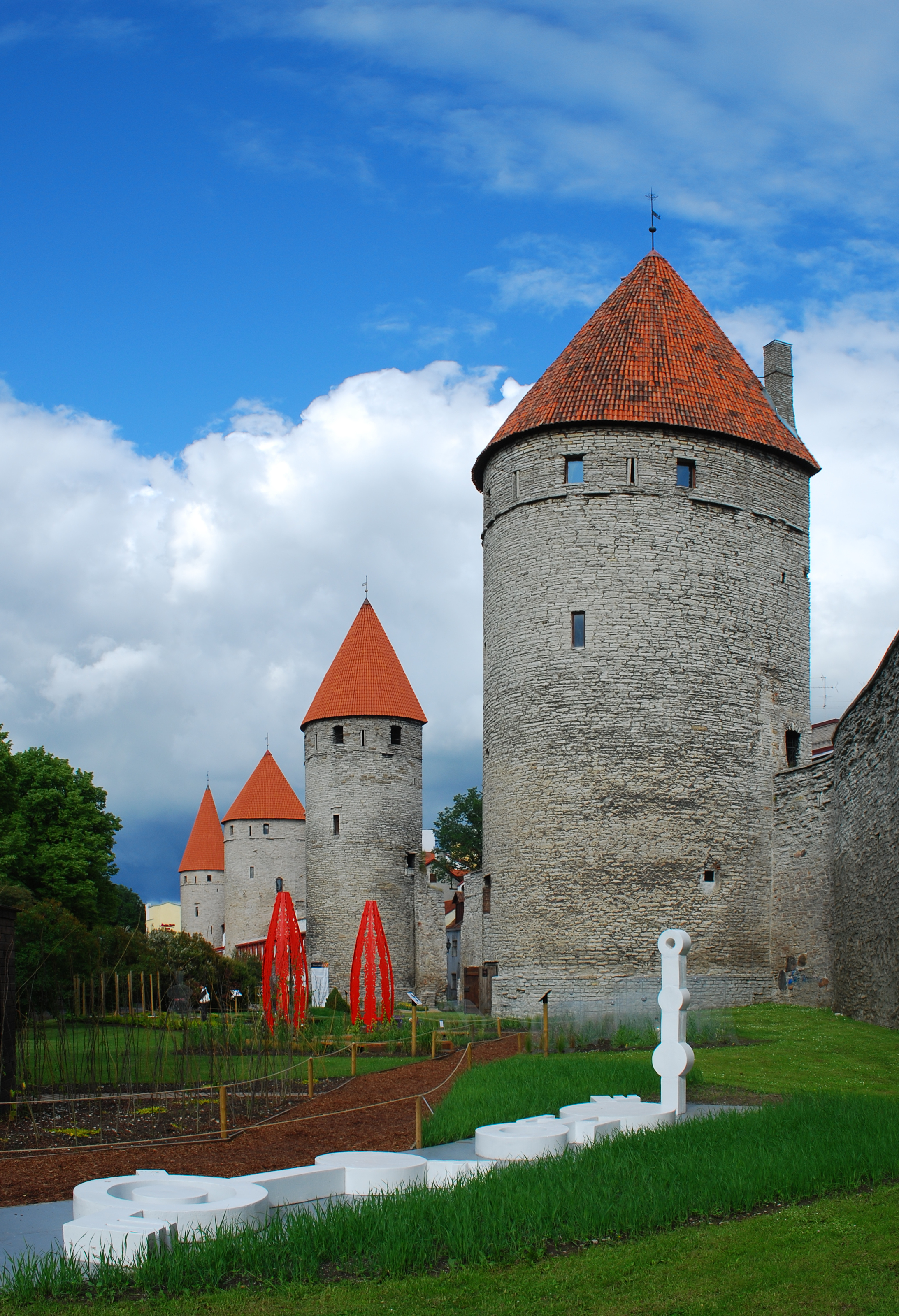 City walls and towers, Tallinn, Estonia. From the foreground towards the background: Köismäe tower, Plate tower, Epping tower and the tower behind Grusbeke.